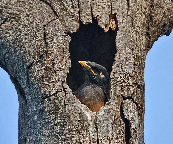 Common Myna Acridotheres tristis in Kolkata, West Bengal, India.